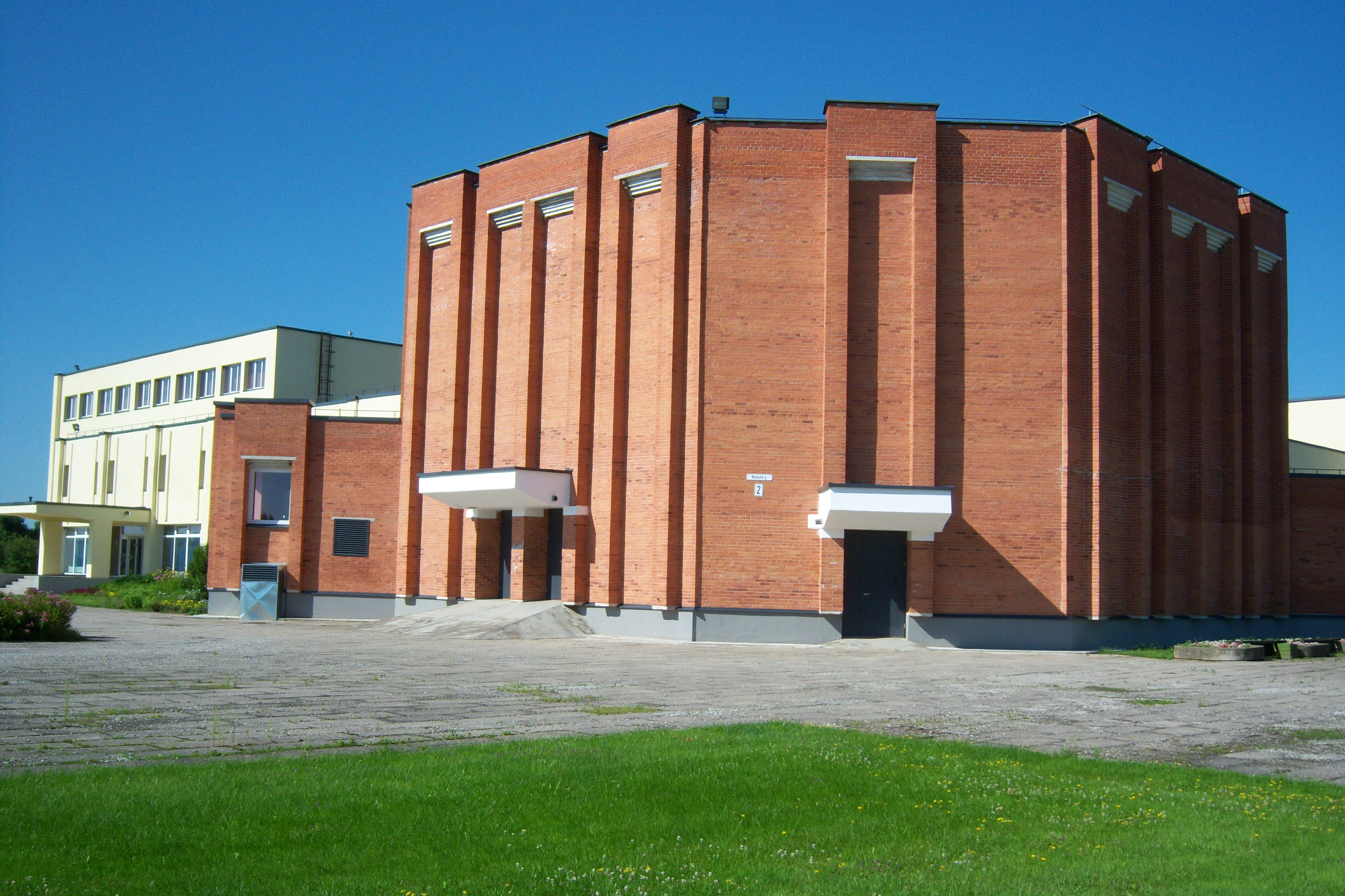 Kaunas College in Mastaičiai, Lithuania